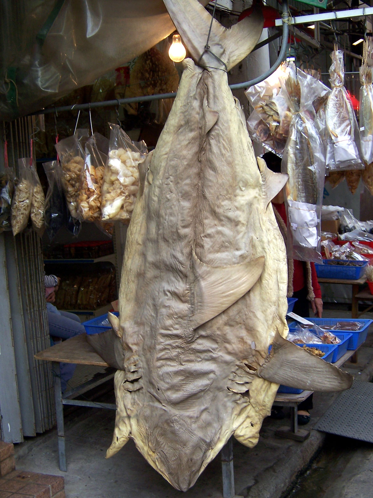 Dried shark skin and fins on display at a street market in Tai O, a traditional fishing village. Taken by Enoch Lau on 31 December 2005. As a courtesy, please let me know if you alter this image or this image description page. Original filename was 100_1021.JPG.